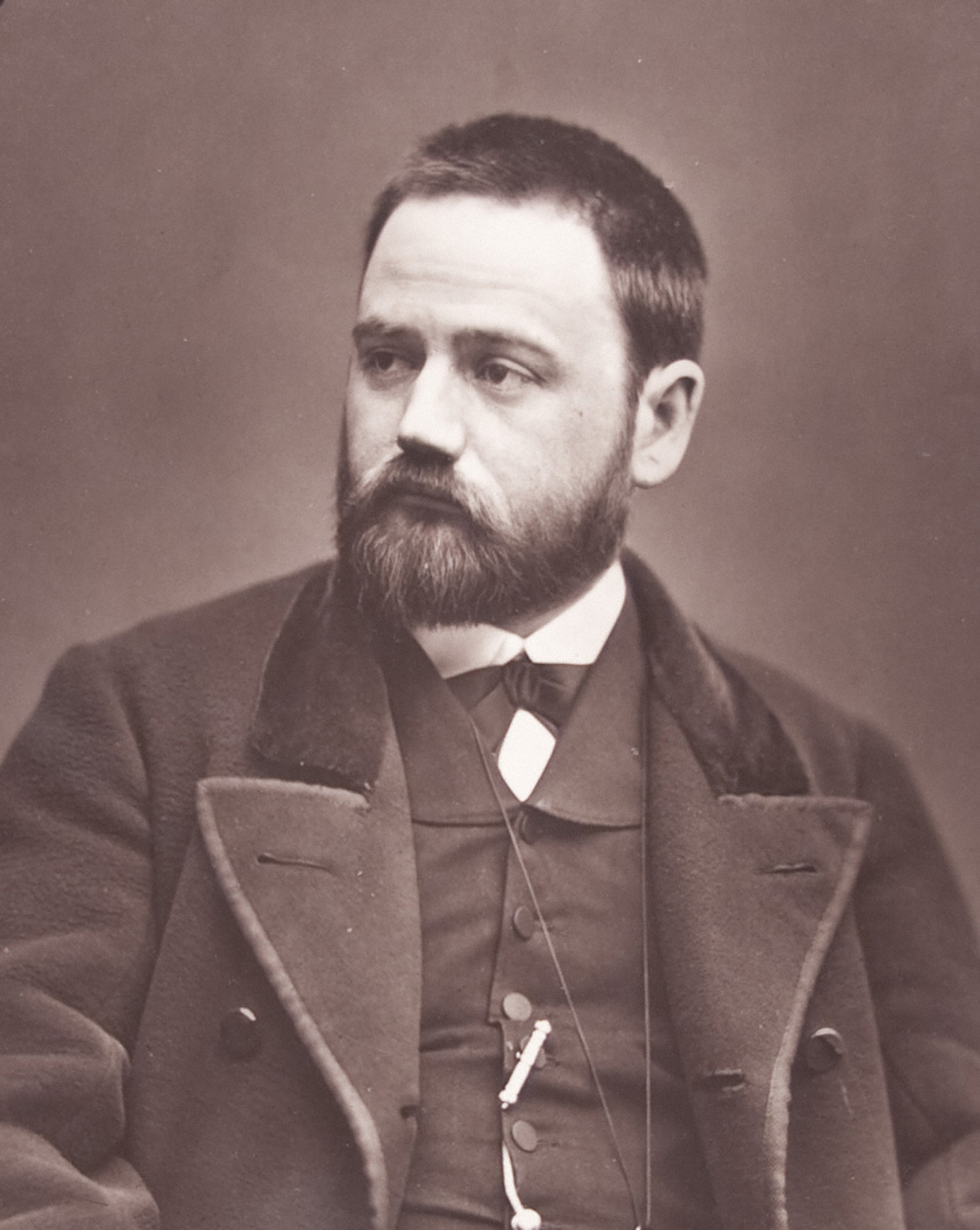 Artist: Etienne Carjat Artist Bio: French, 1828 - 1906 Creation Date: c. 1865 Process: carbon print Credit Line: Gift of Stephen White Accession Number: 2000.005.005